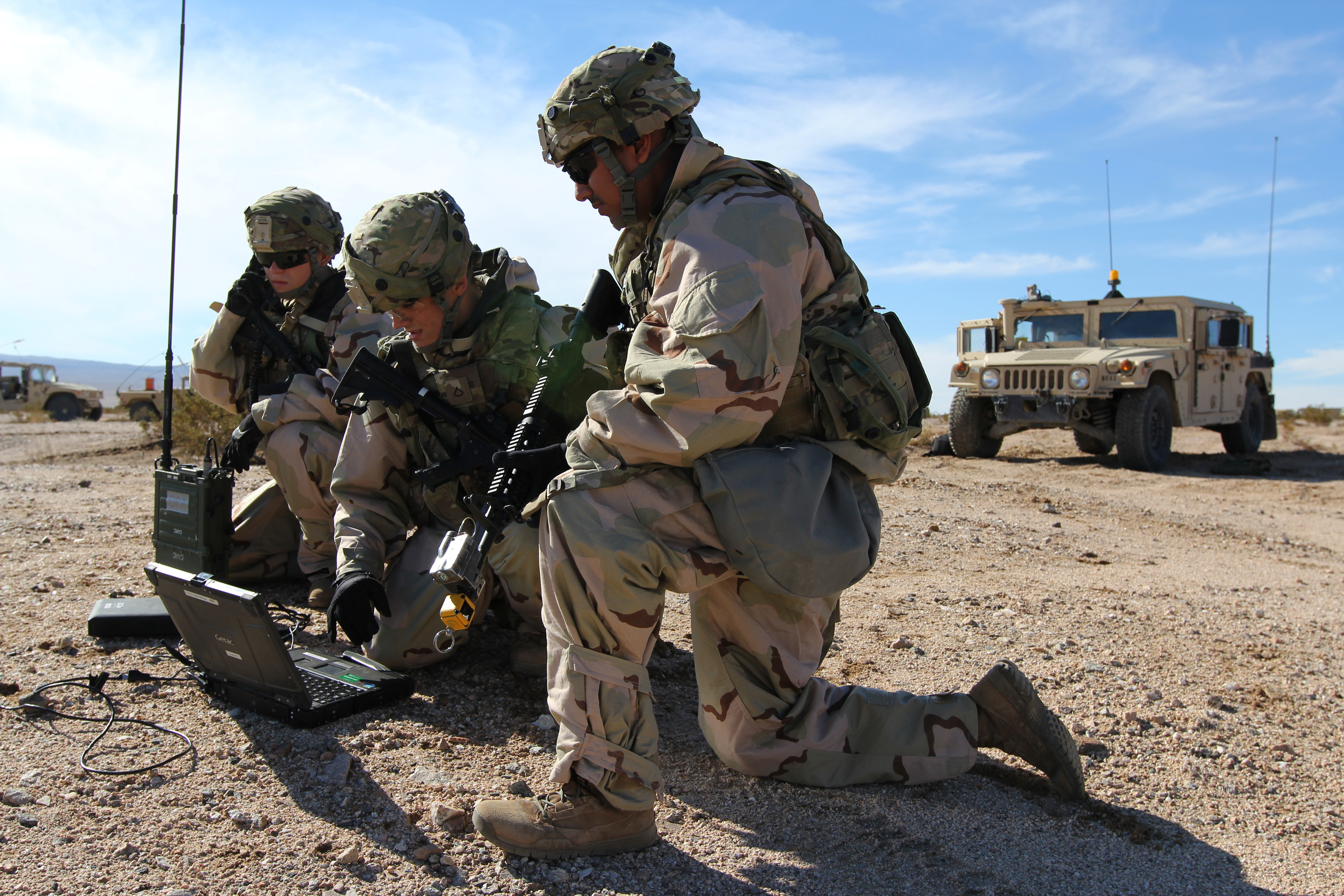 (Left to right) Spc. Ashley Lethrud-Adams, Pfc. Kleeman Avery and Sgt. Alexander Lecea, cyberspace operations specialists with the Expeditionary Cyber Support Detachment, 782nd Military Intelligence Battalion (Cyber) provide cyberspace operations support to a training rotation for the 3rd Brigade Combat Team, 1st Cavalry Division at the National Training Center at Fort Irwin, Calif., Jan. 13, 2019. (Photo by Steven Stover)